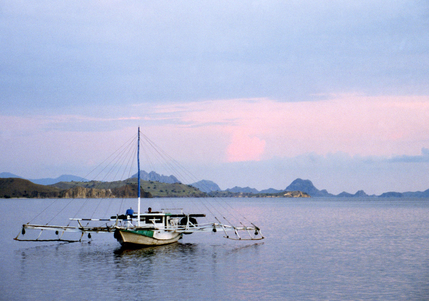 1998 Local Traders At dusk we were visited by several boats and an outrigger canoe, all full of vendors selling carved wood dragons, bone fettishes, and locally cultured pearls. Shopping on the afterdeck. The dragons were better carved on Bali, but we supported the locals here so they would support the park.